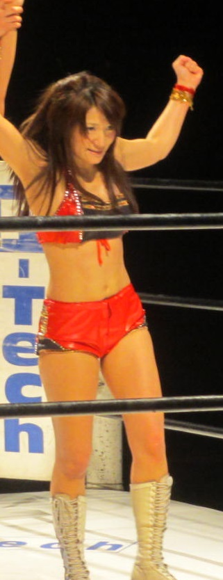 Japanese professional wrestler, Moeka Haruhi. Apr 2 2016, Pro-wrestling WAVE Shin-kiba 1st Ring.